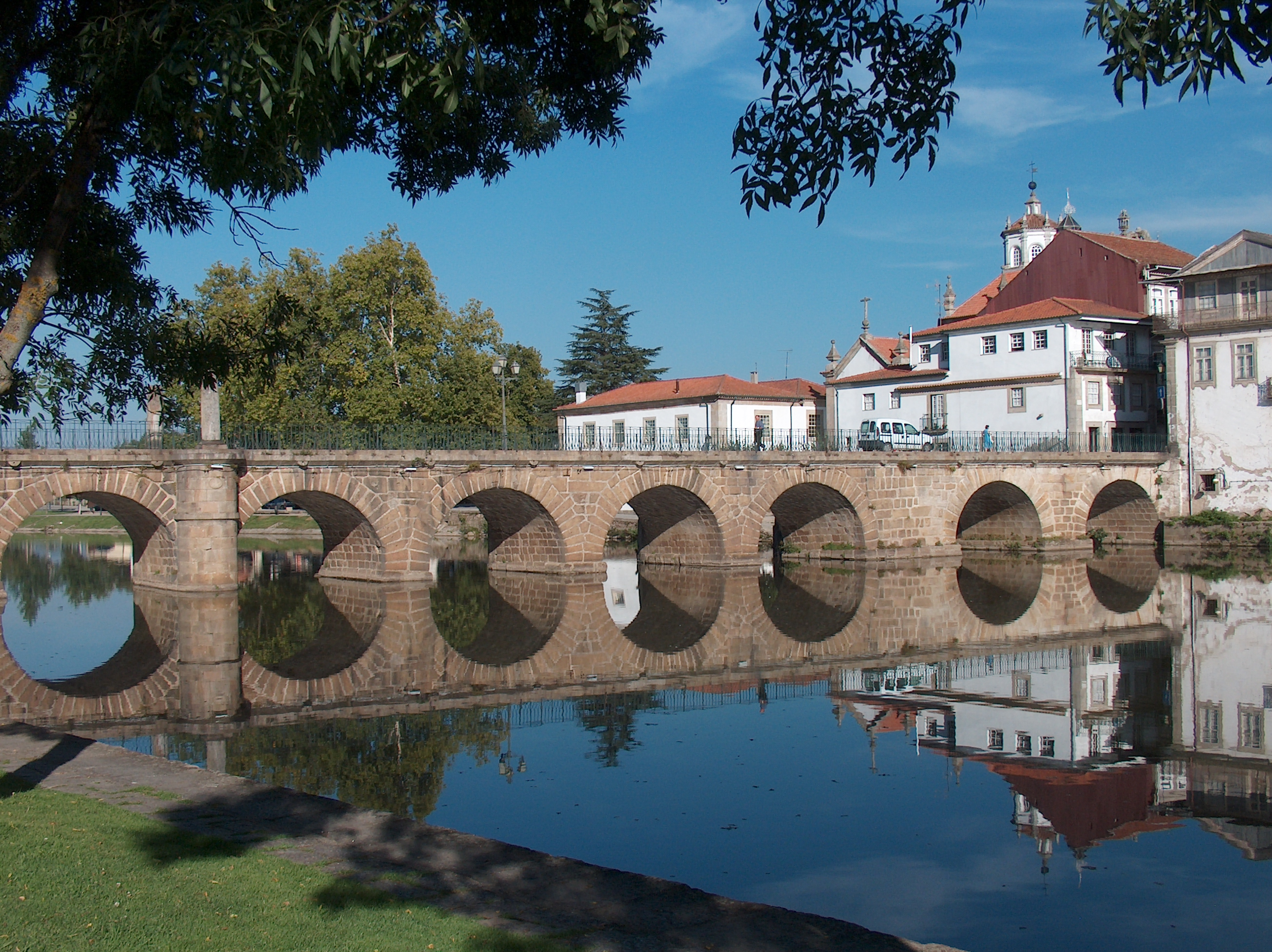 Roman Bridge in Chaves. This file was uploaded for Wiki Loves Monuments in Portugal with the unique identifier 70611. This monument is classified as Monumento Nacional. This building is classified as Monumento Nacional.